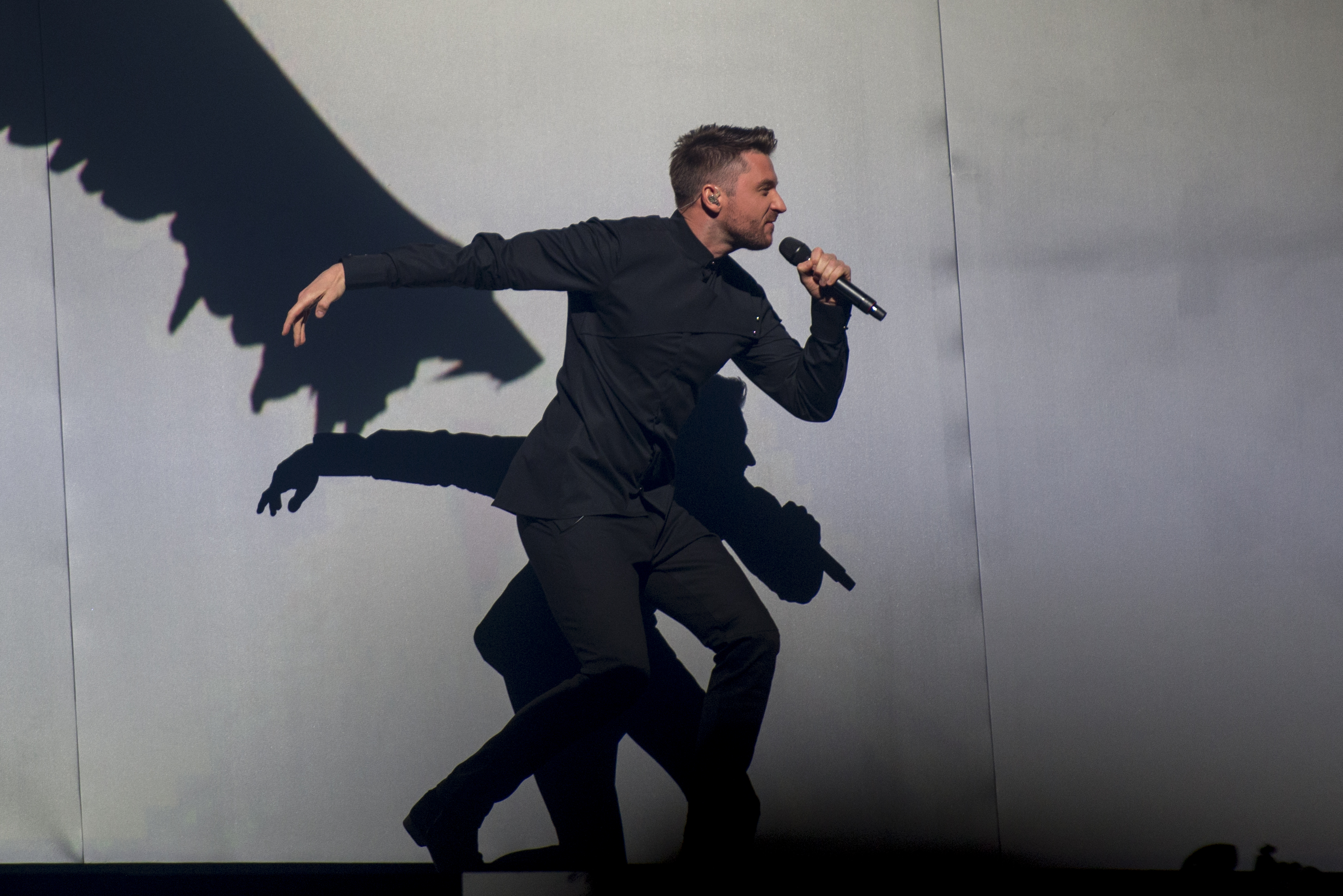 Sergey Lazarev representing Russia with the song "You Are the Only One" during a rehearsal before the first semi final of the Eurovision Song Contest 2016 in Stockholm. (Help translate this text)